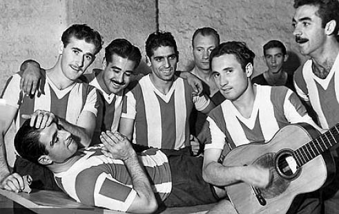 Argentina national team players having a time of fun during the 1945 South American championship. Juan C. Muñoz plays the guitar, with René Pontoni, Norberto "Tucho" Méndez, Rinaldo Martino and Rodolfo De Zorzi surrounding him.